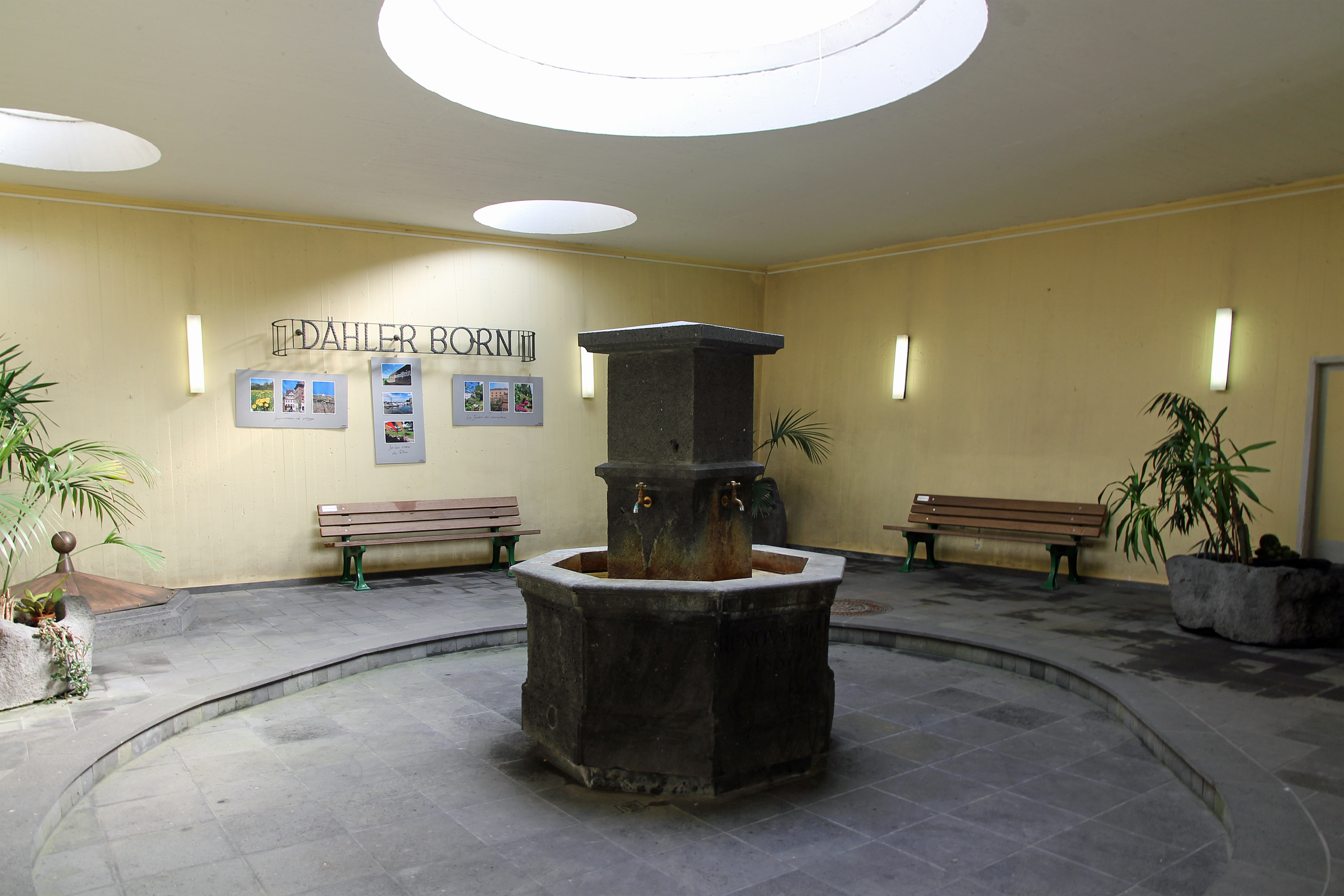 Dähler Born (mineral water spring) in Koblenz